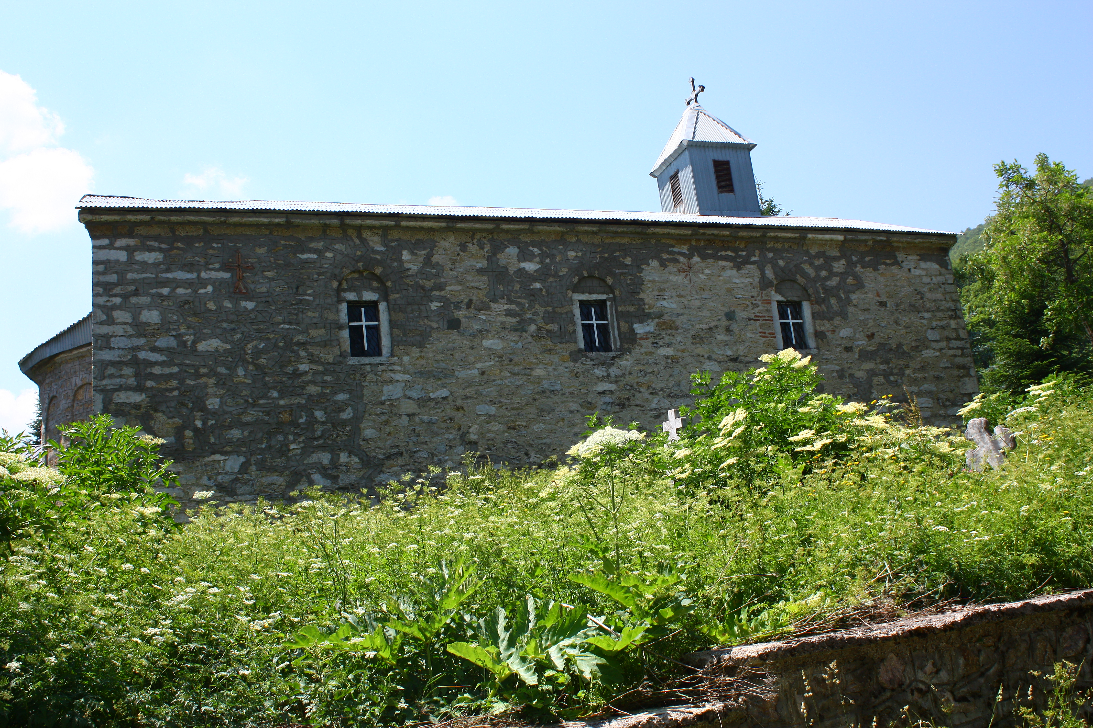 St. Pantaleon's Church in Nikiforovo, Macedonia